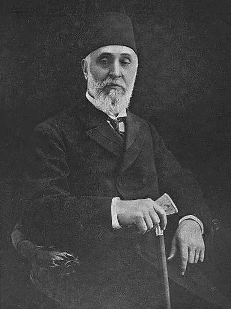 Ahmed Tevfik Pasha (1845-1936) Ottoman Grand Vizier